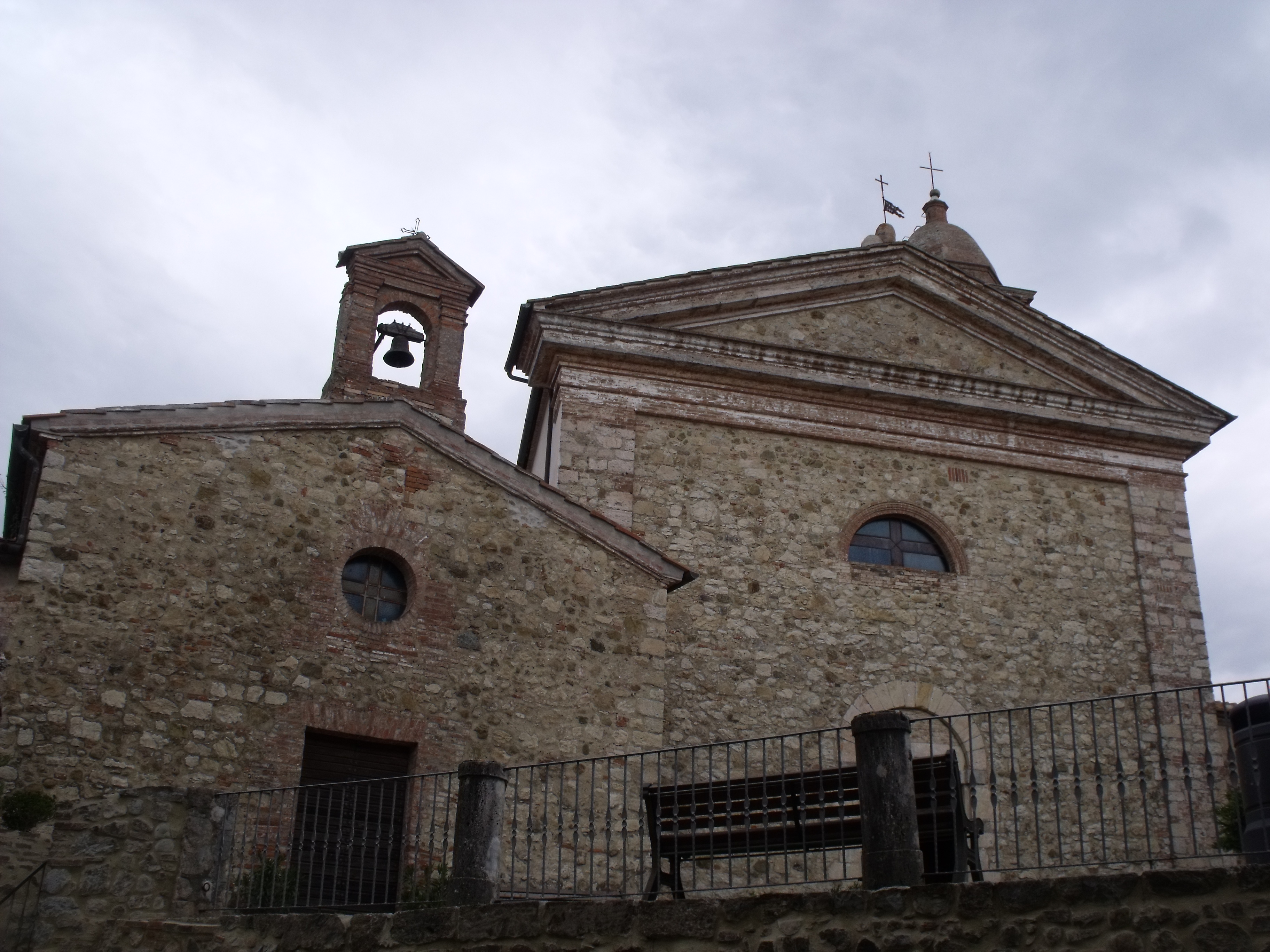 Church of San Biagio in Pari, hamlet of Civitella Paganico, Province of Grosseto, Tuscany, Italy